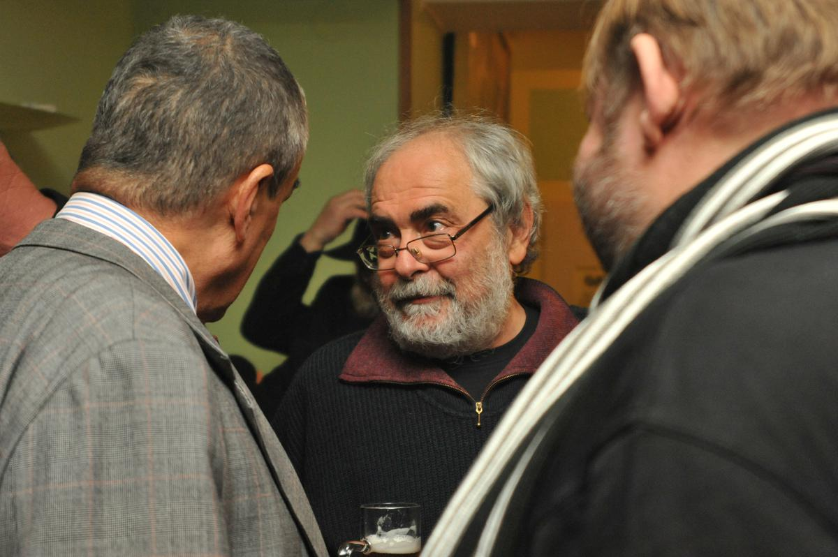 Vladimir Hanzel